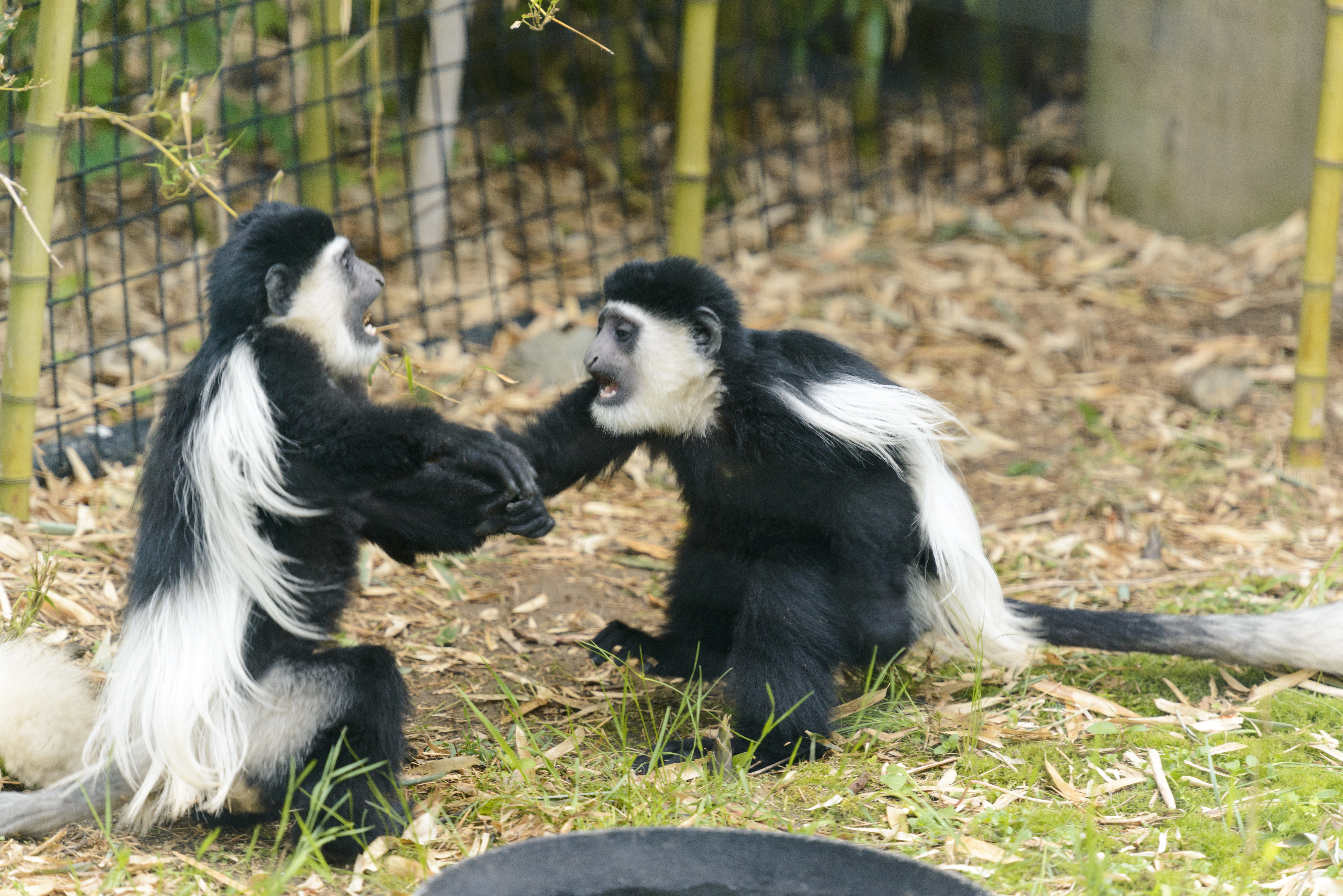 Little Colobus Monkeys Play-Fighting